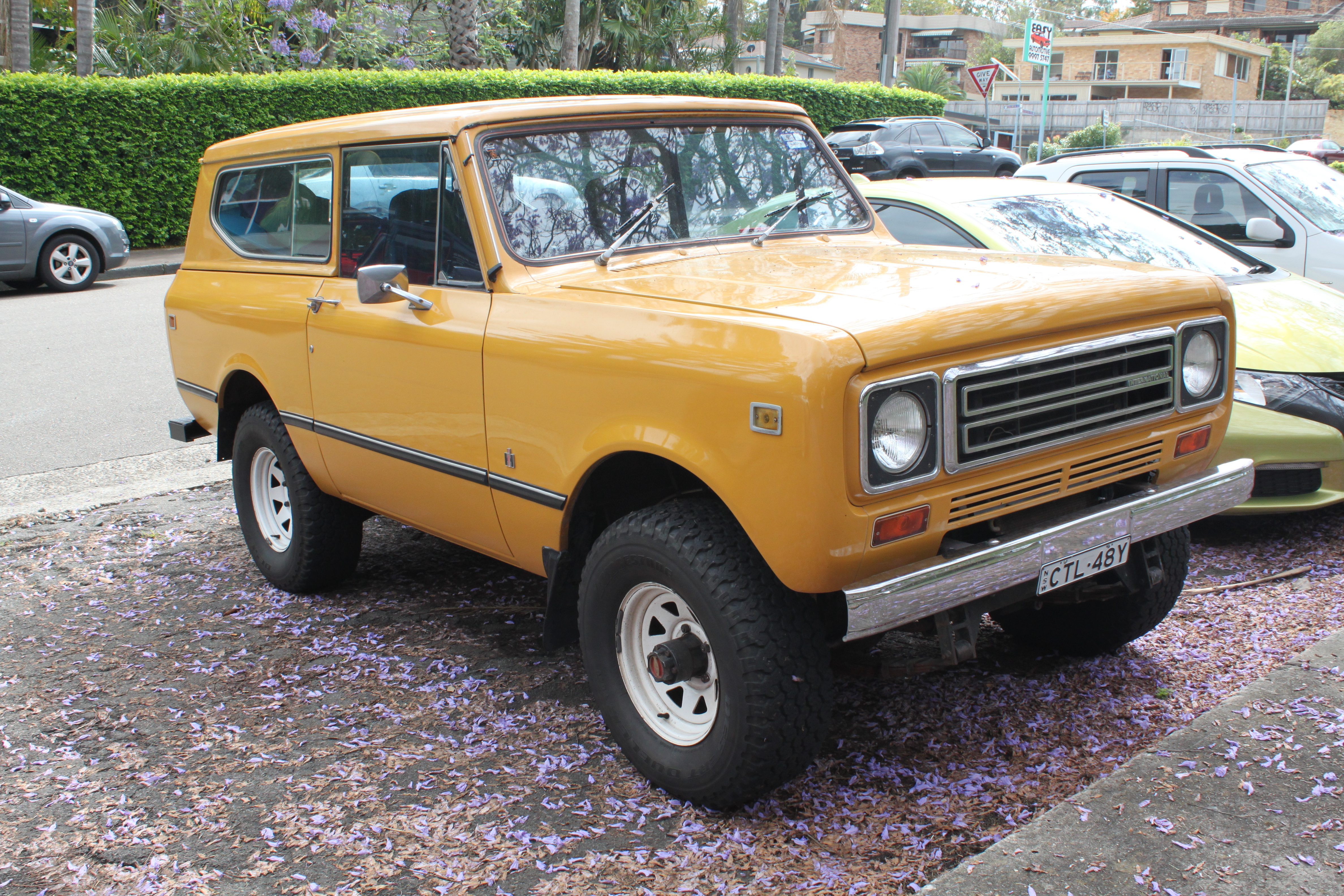 International Scout II 4x4